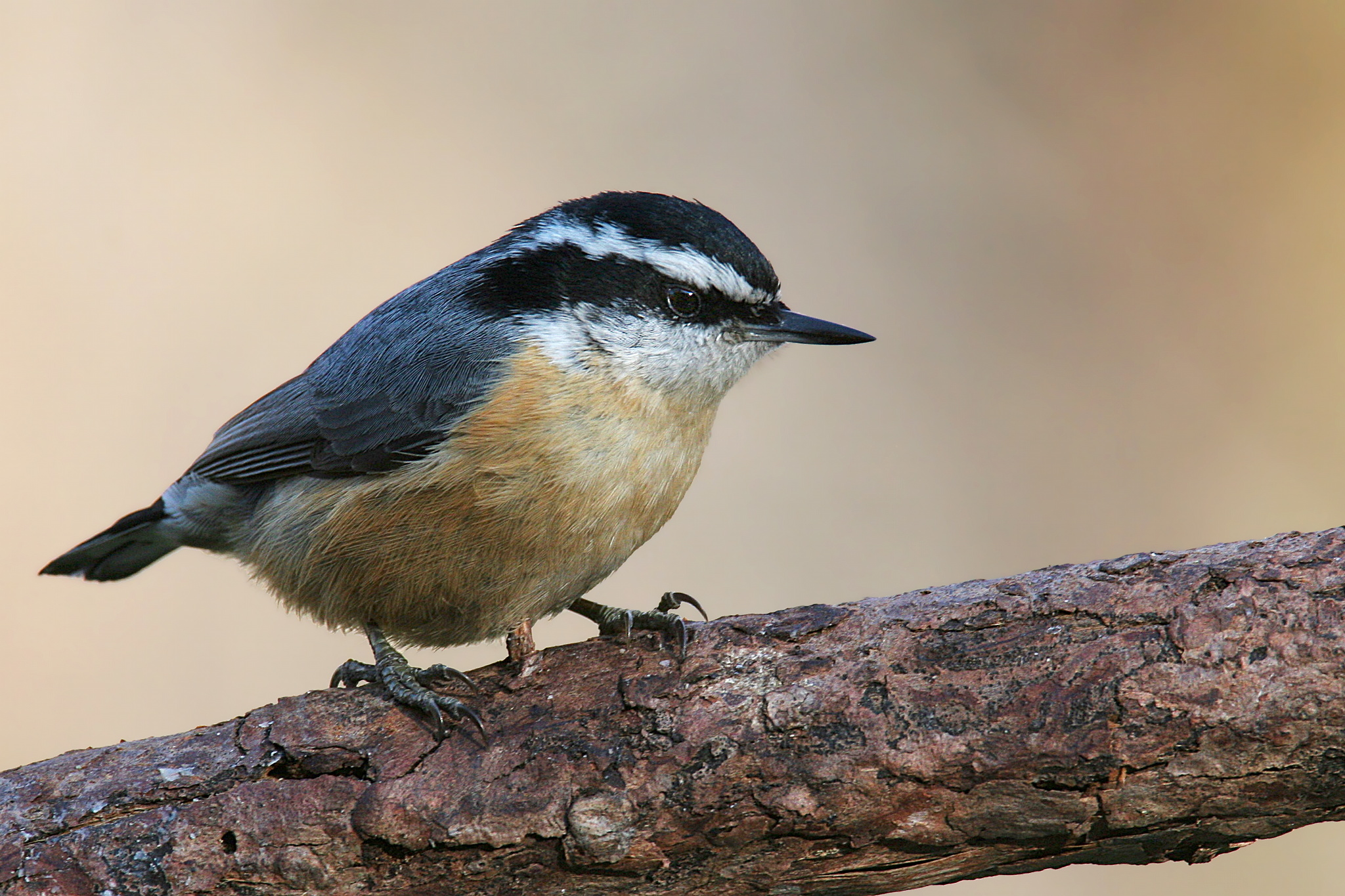 Red Breasted Nuthatch/Sitta Canadensis